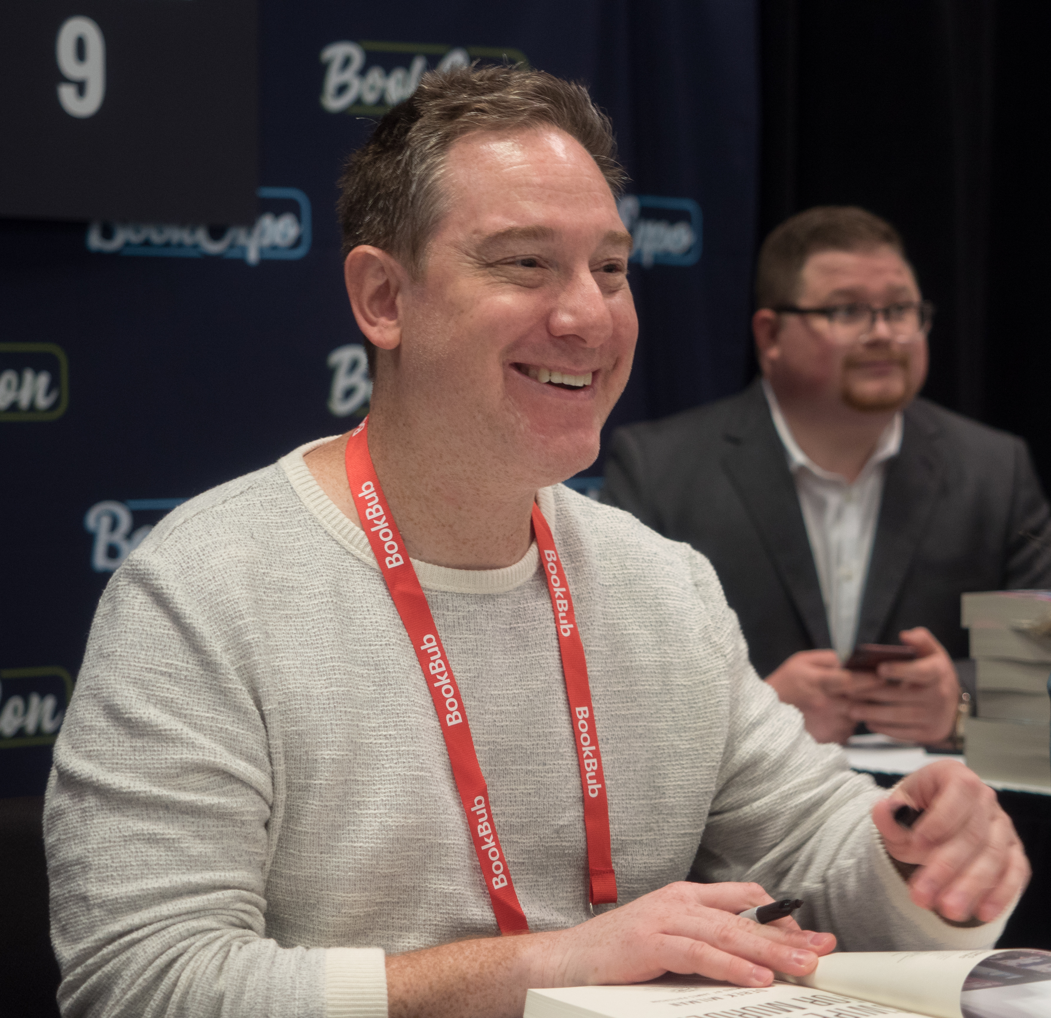 Derek Milman at BookExpo at the Javits Center in New York City, May 2019.